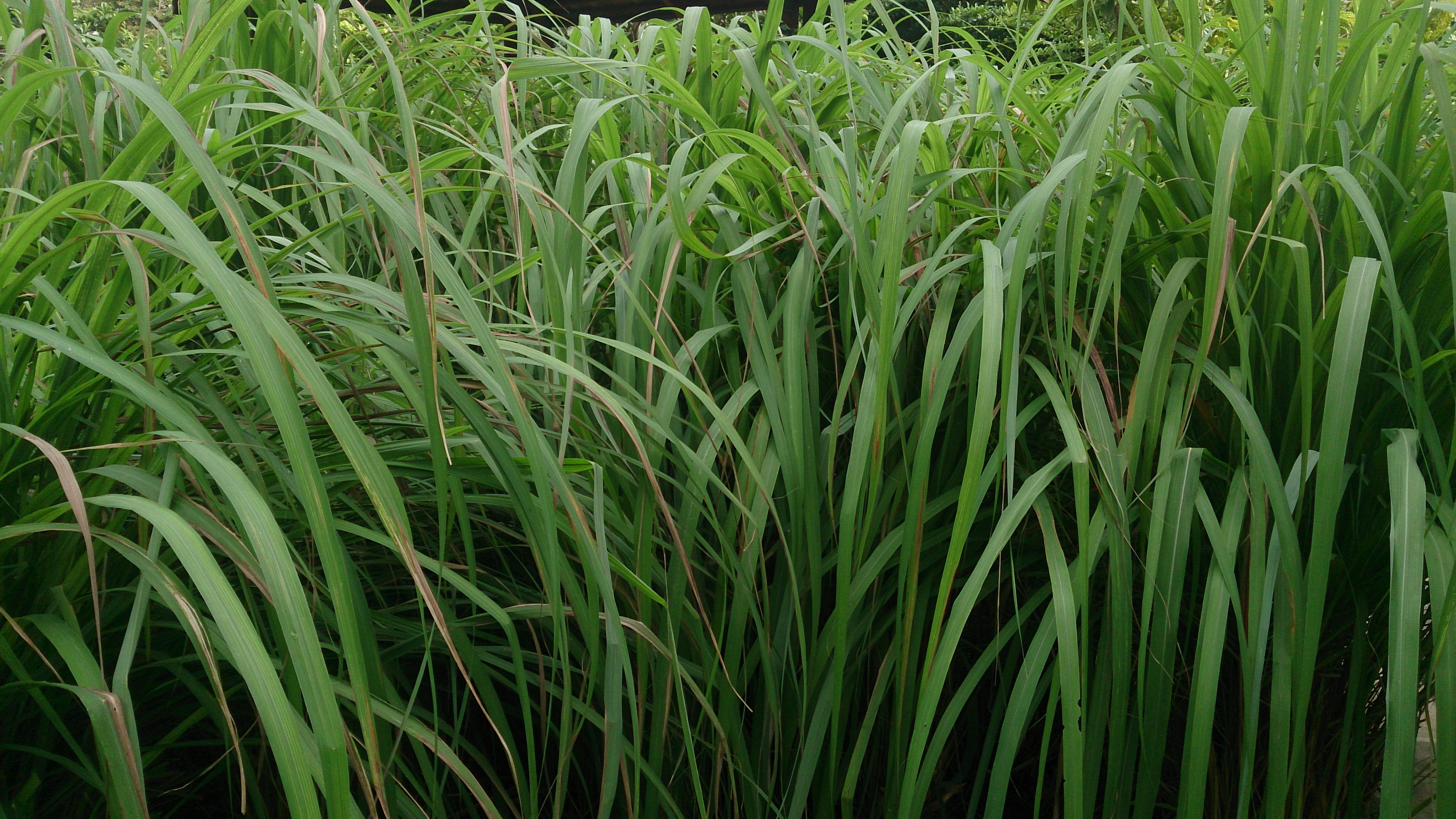 Cymbopogon nardus. Common names: Citronella. Mana Grass. Used in insect repellents.